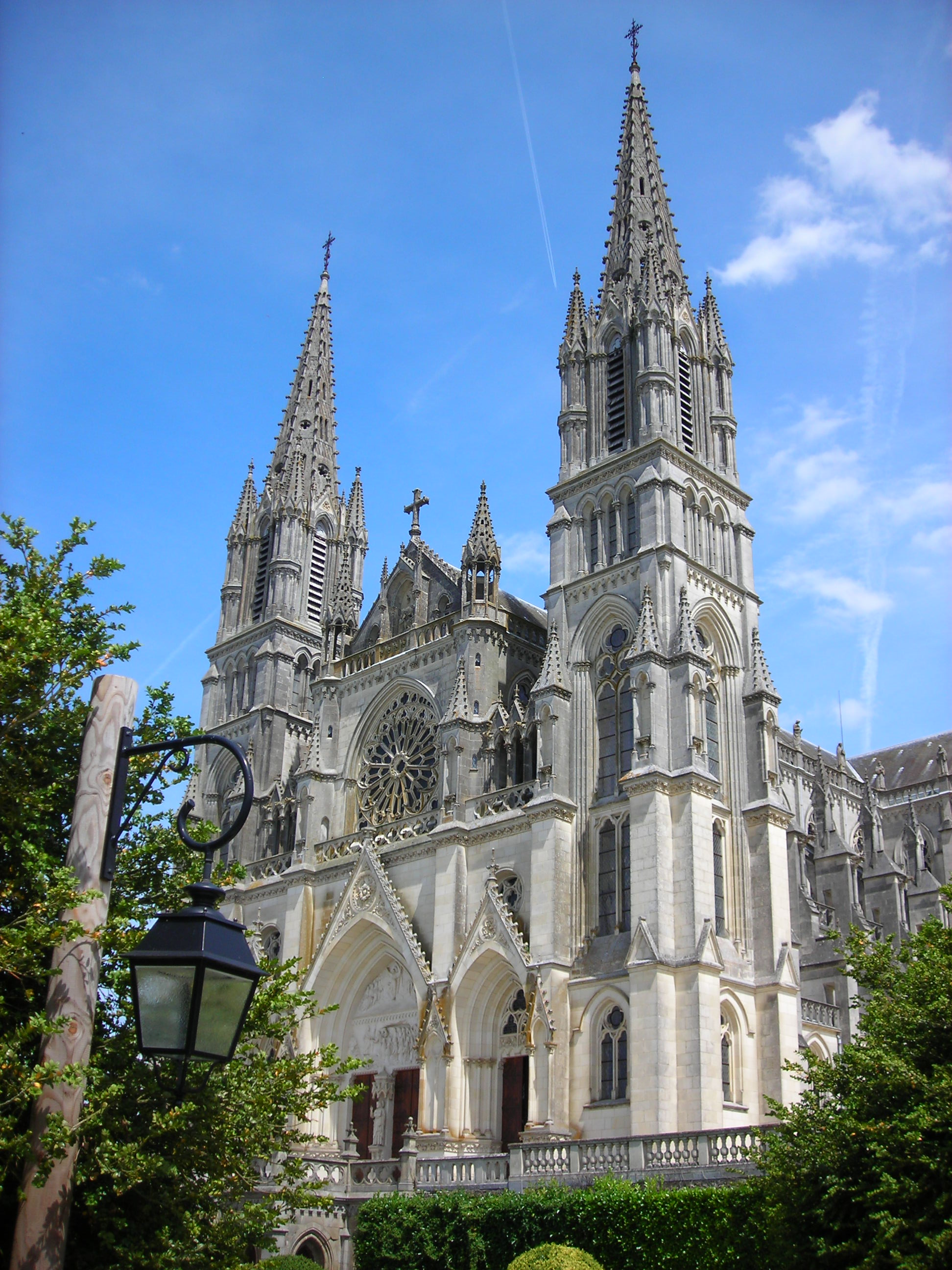 The Basilique Notre-Dame de Montligeon in France (departement of Orne)